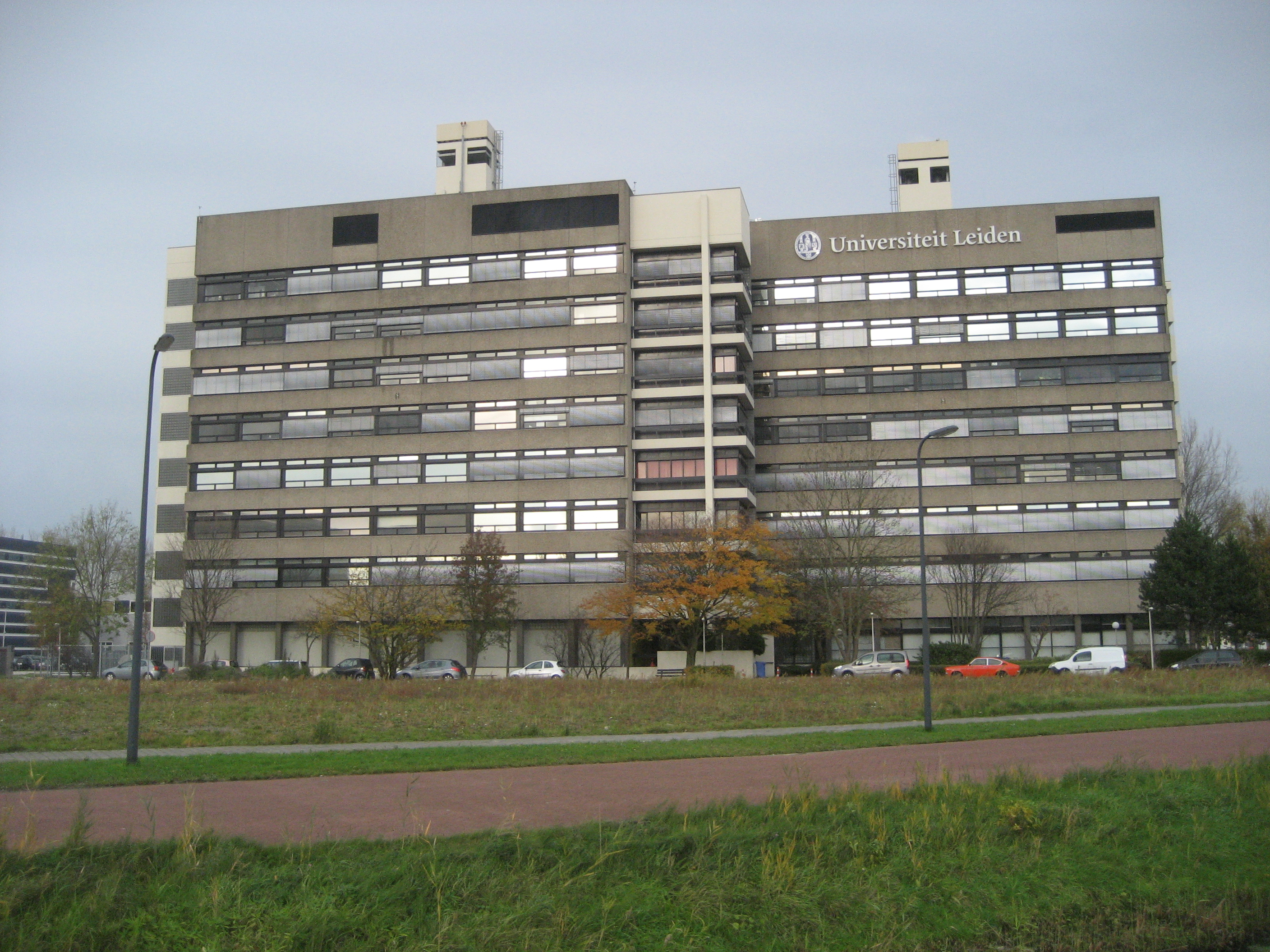 Sylvius Laboratory, Wassenaarseweg 72, Leiden. Leiden University (The Netherlands). Built in 1969-1975. Architects E.F. Groosman & ir. A.M. Key. Leiden Bio Science Park